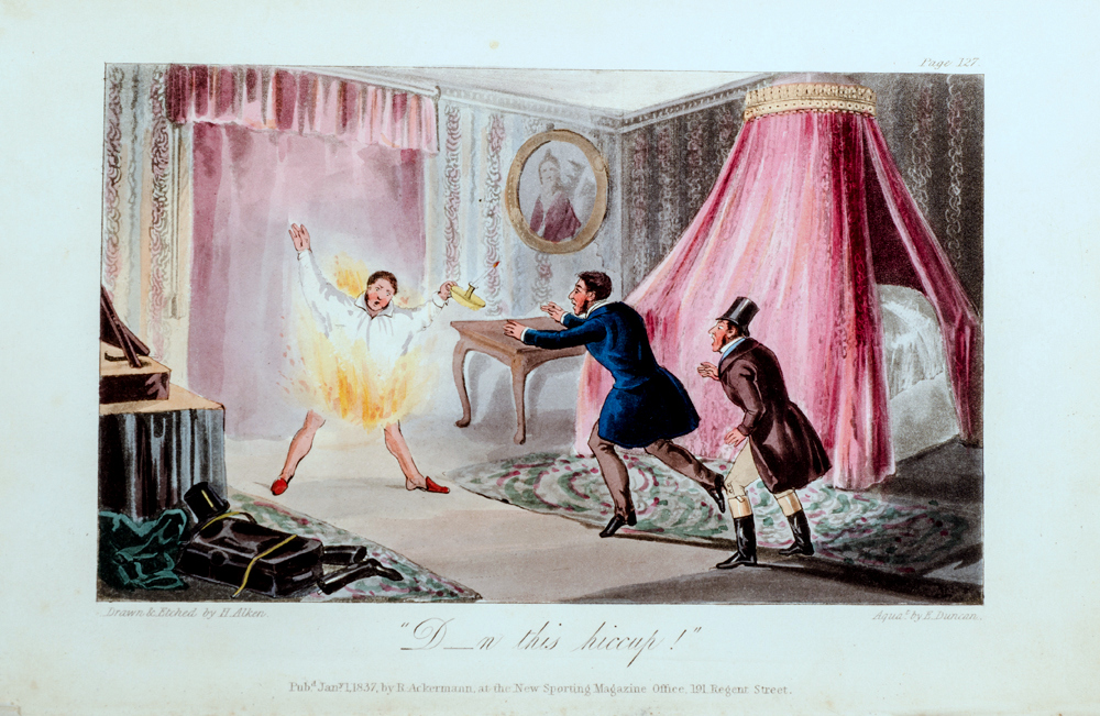 D--n this hiccup, by Henry Alken - Memoirs of the Life of the Late John Mytton, Esq. of Halston, Shropshire, by Nimrod, 2nd ed, London, 1837.